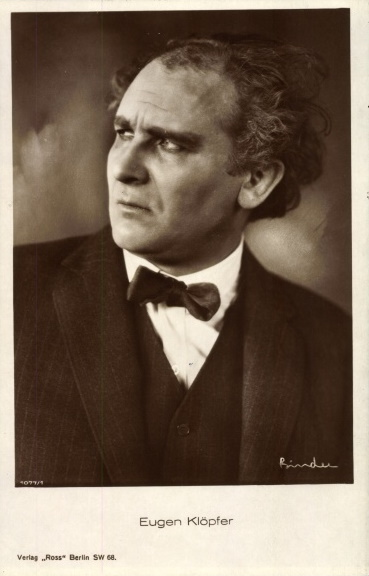 Promotional postcard portrait of German actor Eugen Klöpfer (10 March 1886 – 3 March 1950) by Alexander Binder.